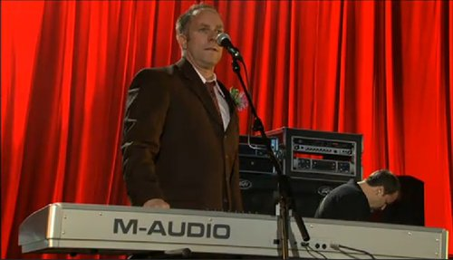 roddy bottum performing with faith no more